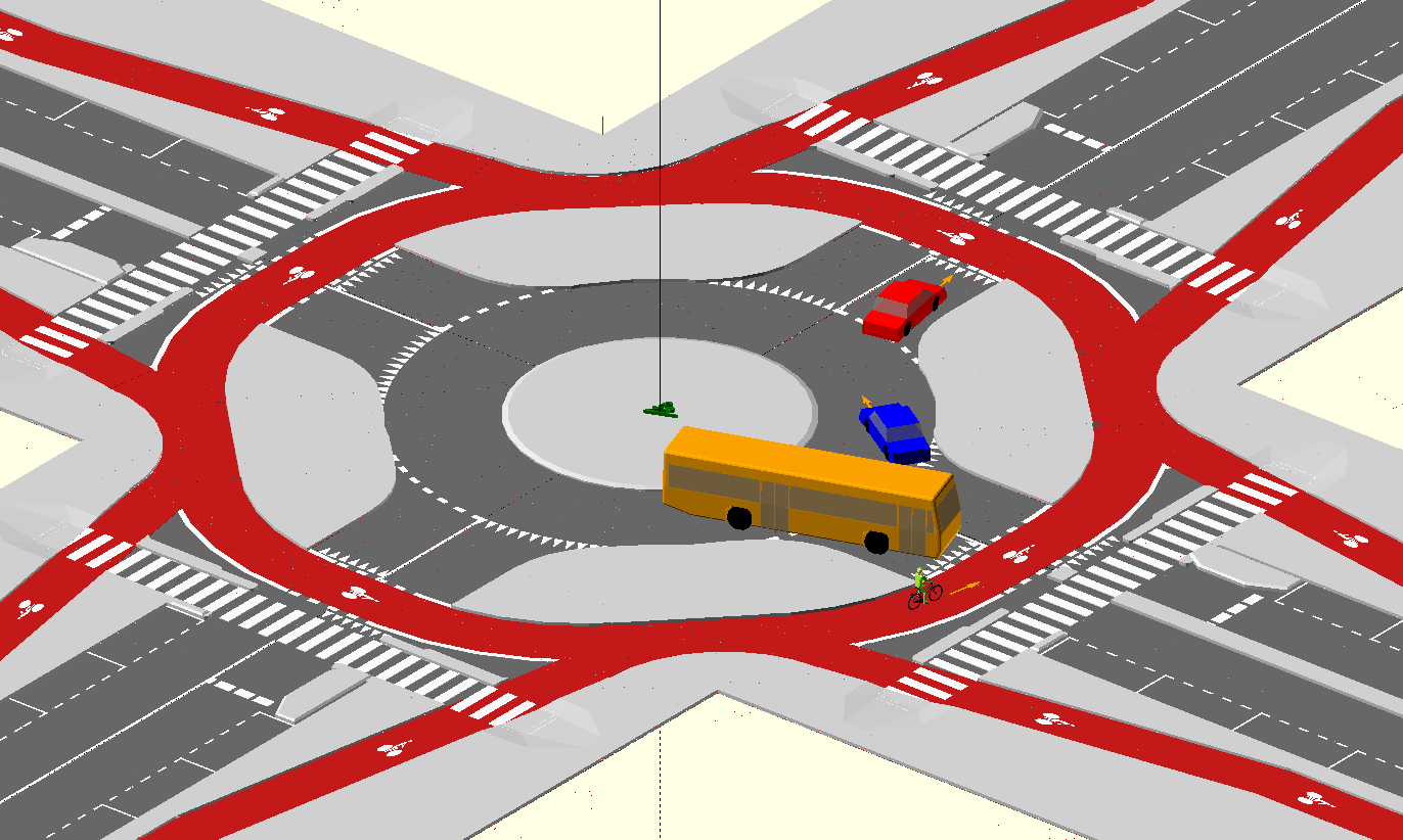 3D view of a protected roundabout, as commonly used in the Netherlands. This image is an example extracted from the design application 'Protected crossing', which I authored (available on my GitHub account published in November 2018